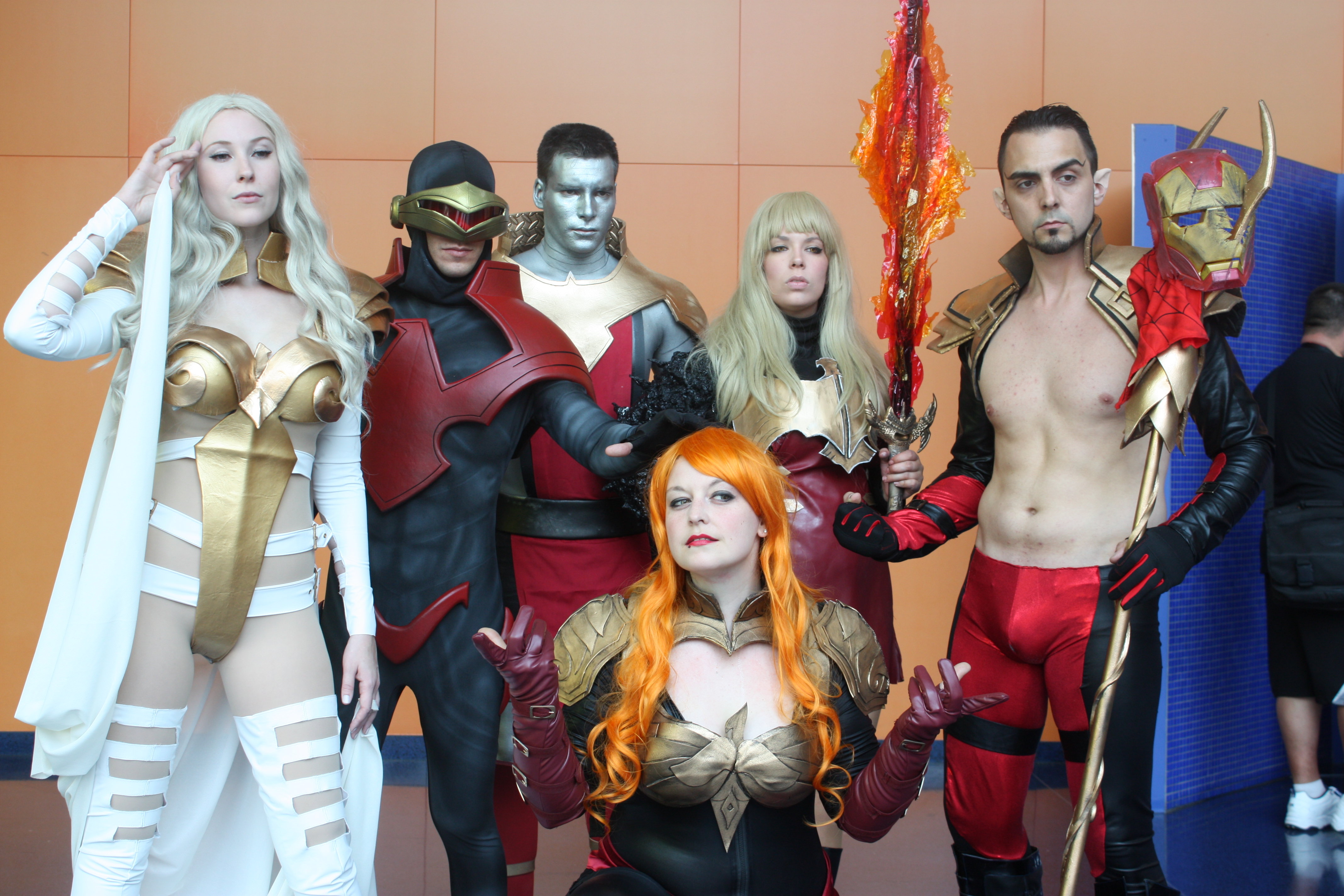 Cosplay on day three of Montreal Comiccon 2015.